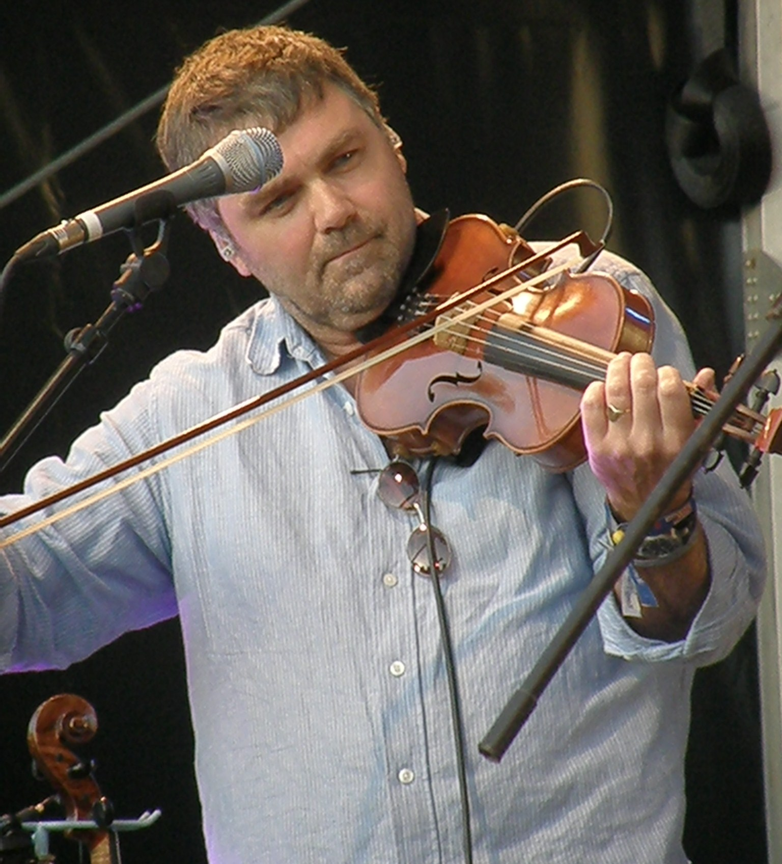 Chris Wood performing with The Imagined Village at Camp Bestival